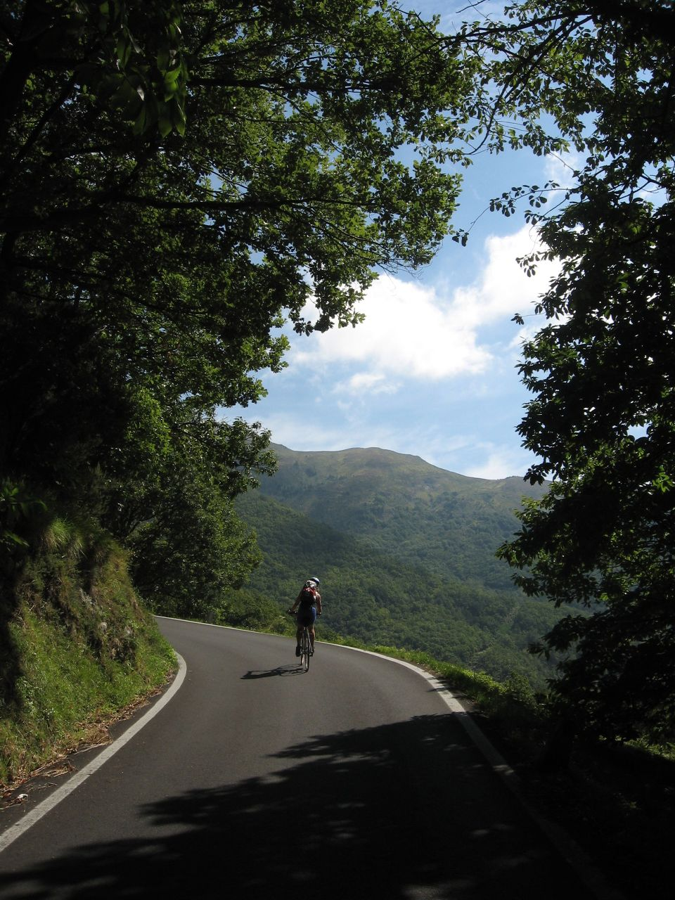 Passo del Bocco.